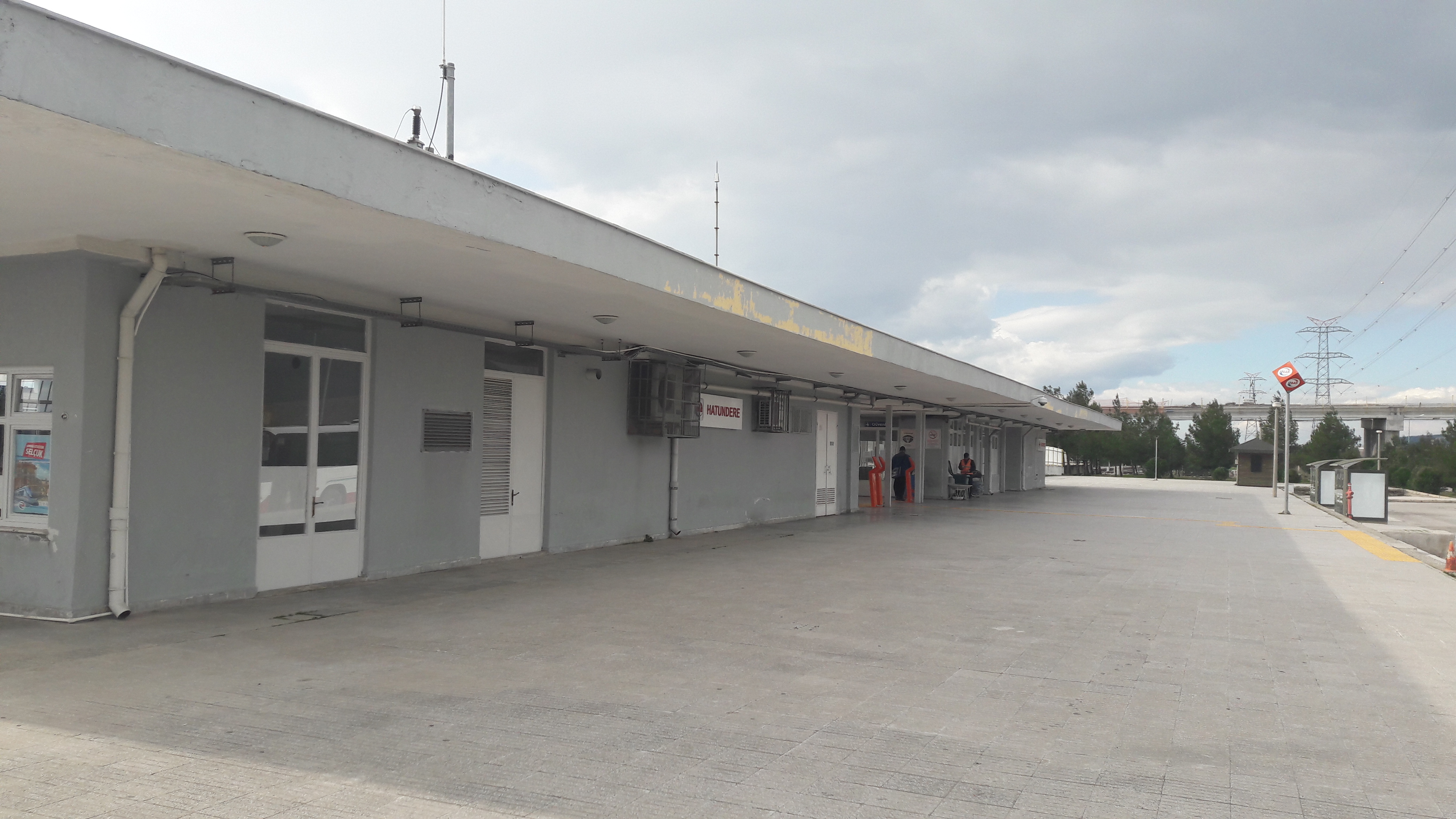 The station building of Hatundere railway station.